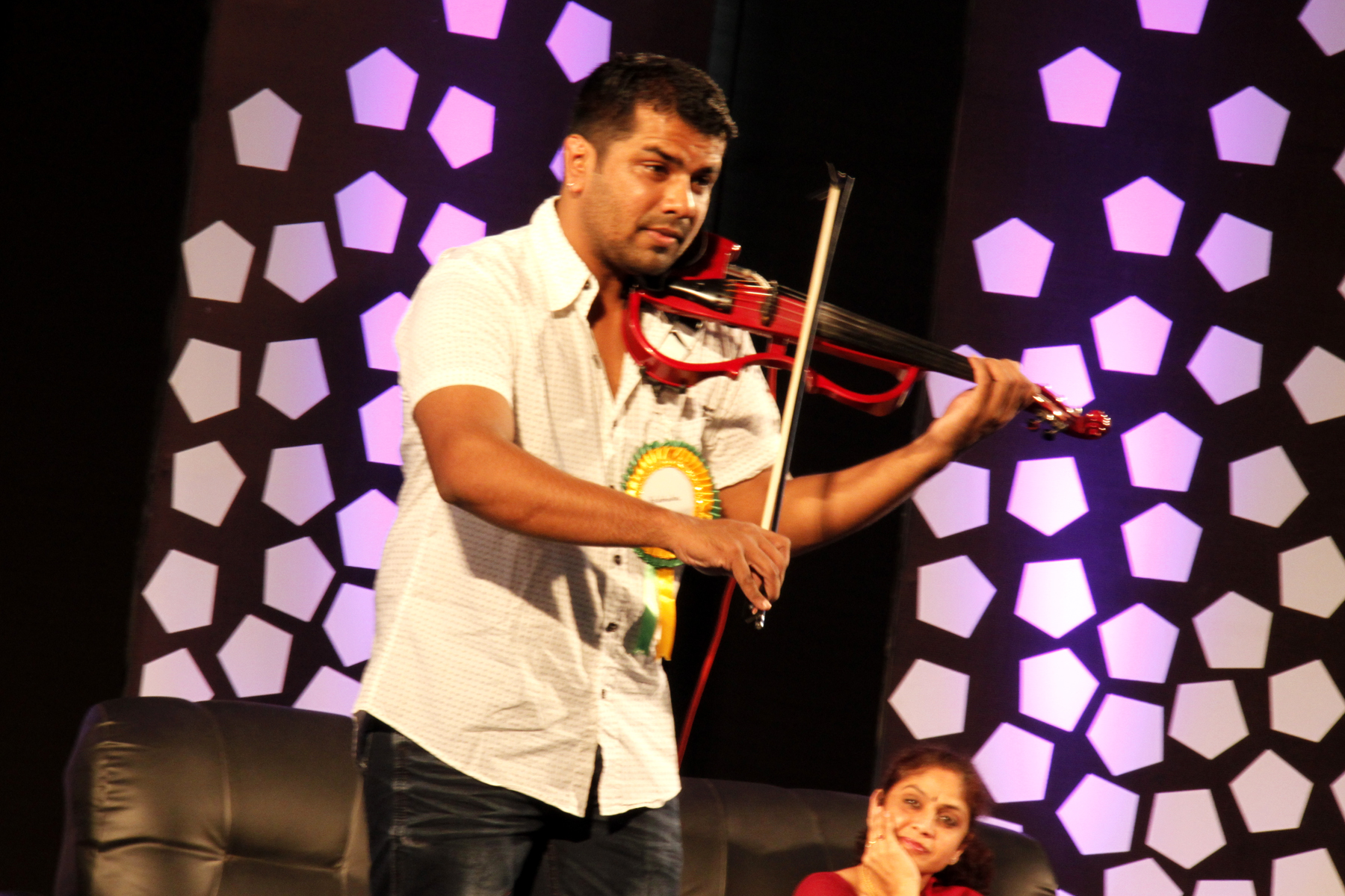 Balabhaskar performing at Erudite Conclave 2011 organised by Class of 2005, Medical College, Thiruvananthapuram, India.